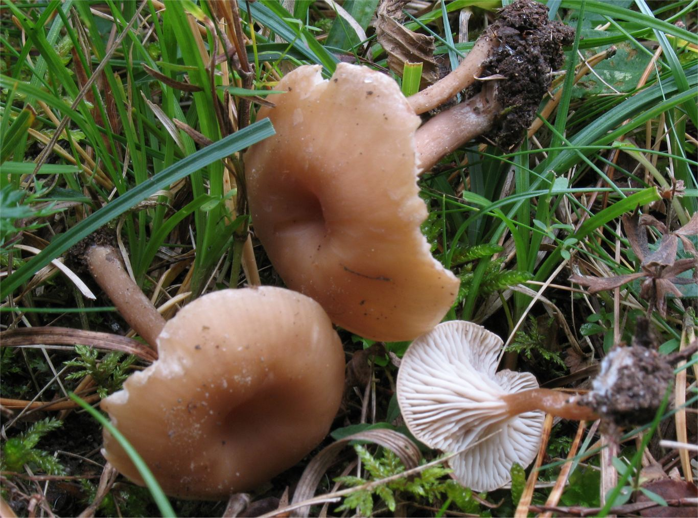 Fruit bodies of the agaric fungus Pseudoomphalina kalchbrenneri (Bres.) Singer. Photographed in Gotland, Sweden.